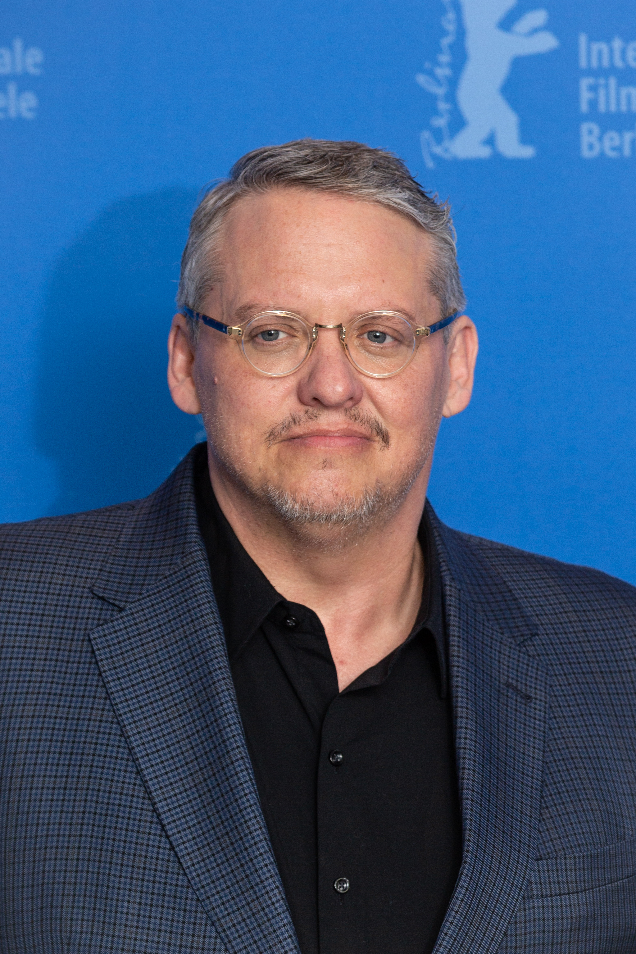 Film director Adam McKay at the Berlinale 2019